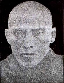 U Wisara Sayadaw